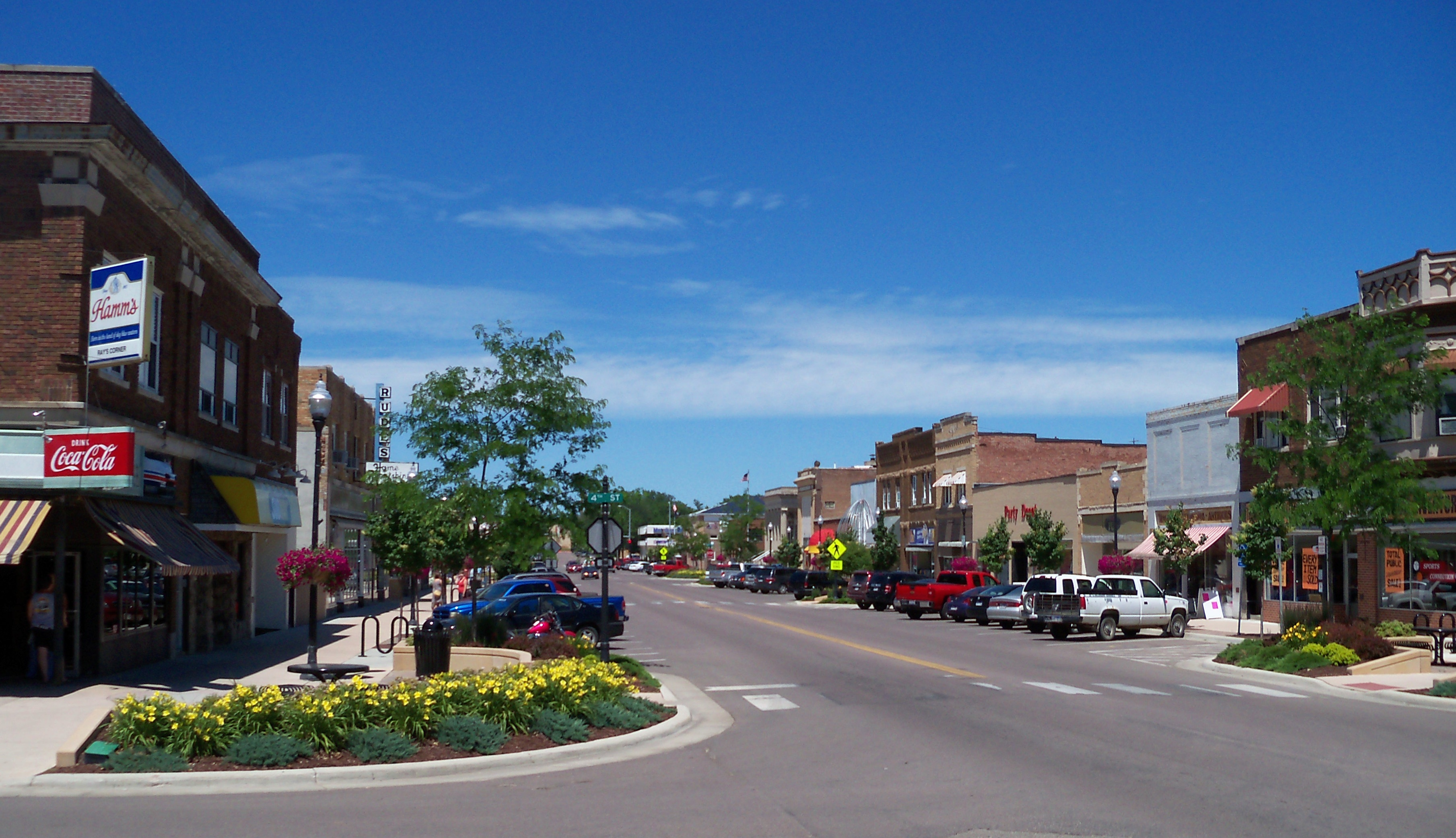 Main Street in Brookings, South Dakota, USA.